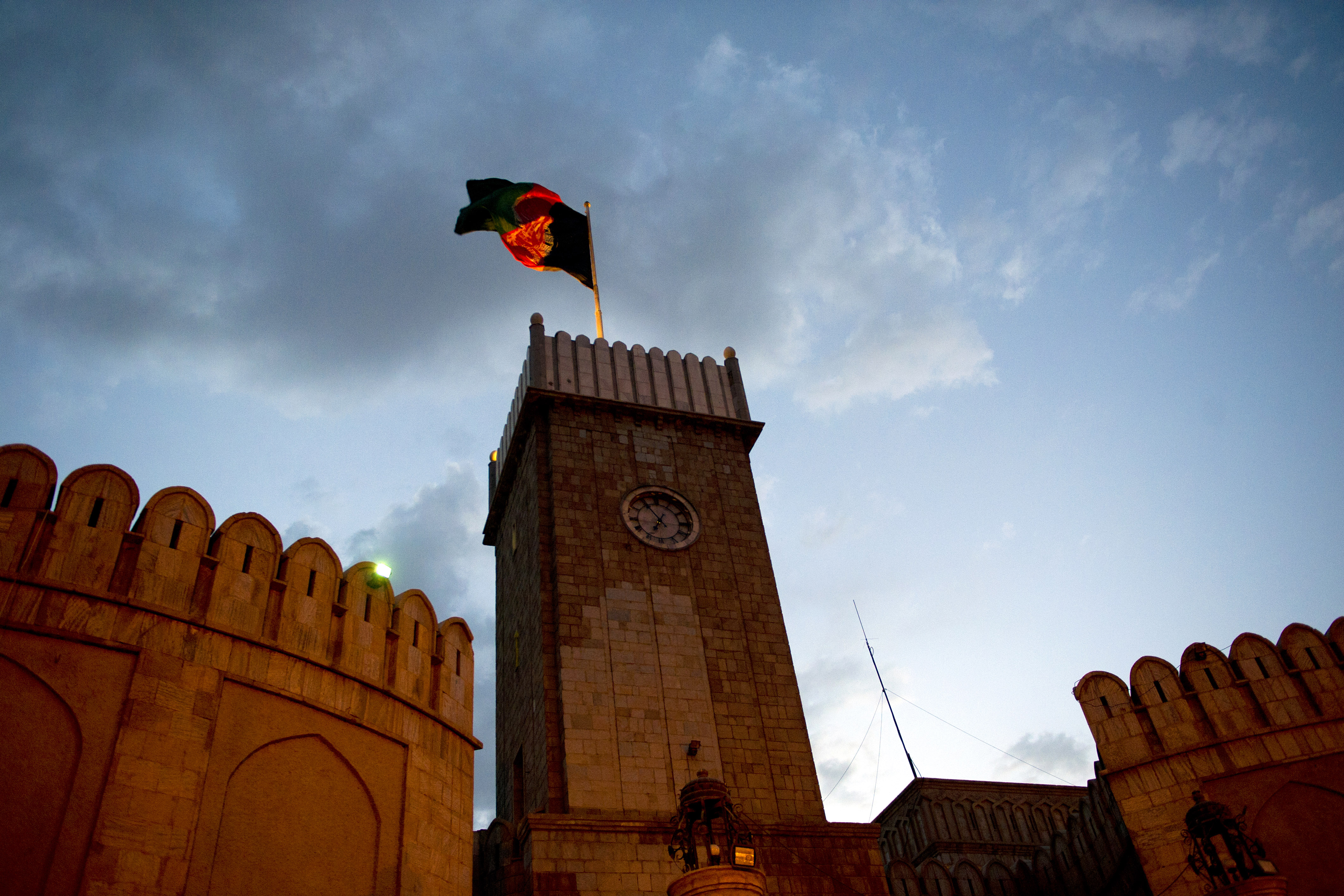 The Afghan flag flies over the entrance to the palace of Afghan President Hamid Karzai in Kabul, Afghanistan, June 4, 2011.